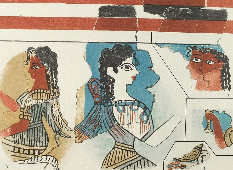 Partly-restored fragments from the "campstool fresco", Knossos: A. J. Evans, The Palace of Minos 4.2 (1935)